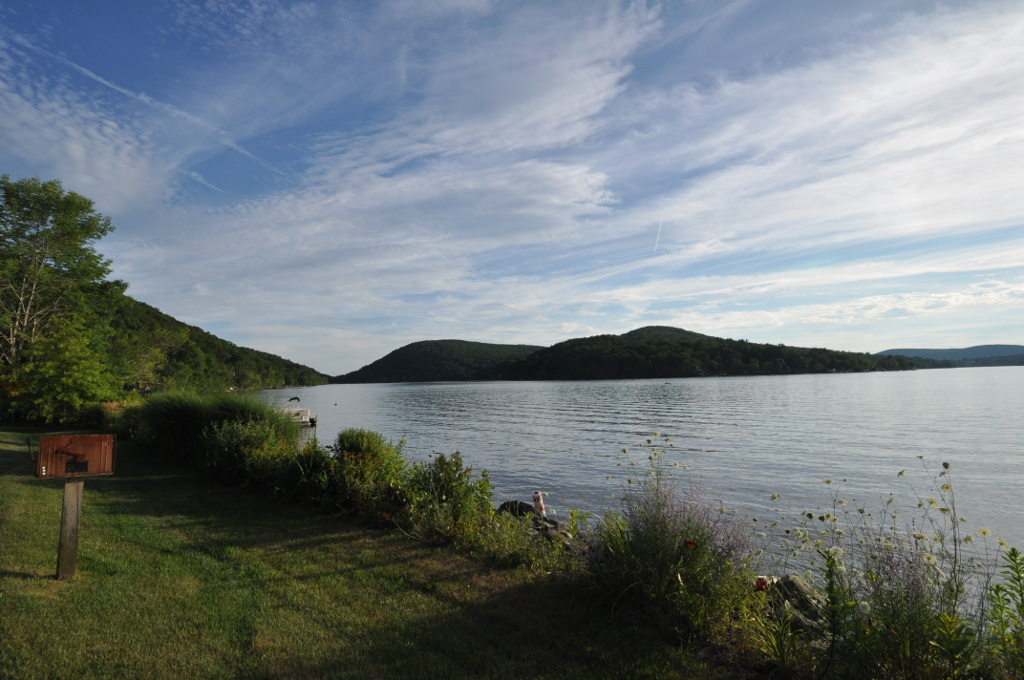 View of Lake Wauregan, with Mount Bushnell visible in the background, in Washington, Connecticut.